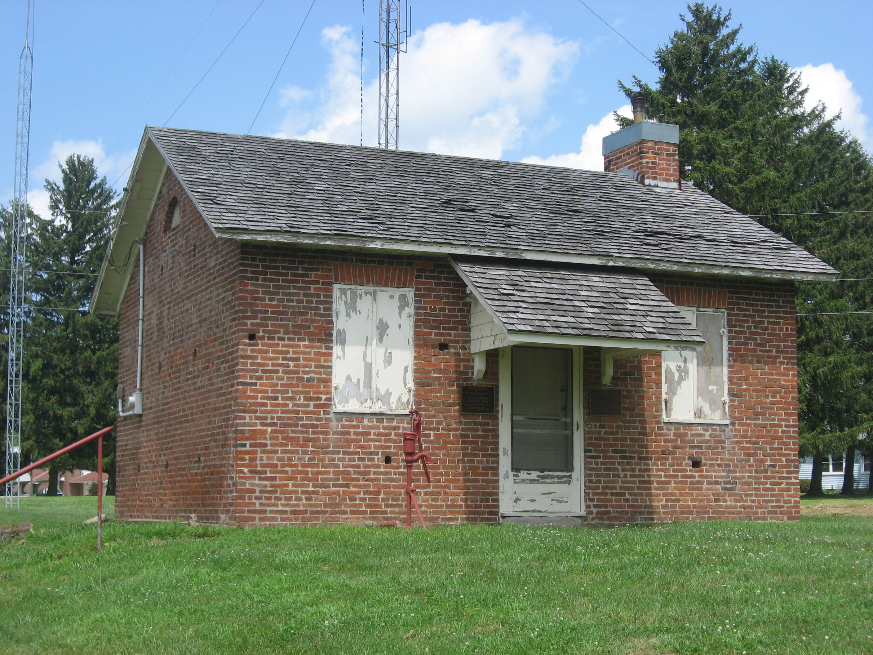 Front of the Beehive School, located along State Route 49 south of Greenville in Greenville Township, Darke County, Ohio, United States. Together with the nearby Studabaker-Scott House, the school — Darke County's first, built in 1846 — is listed on the National Register of Historic Places.